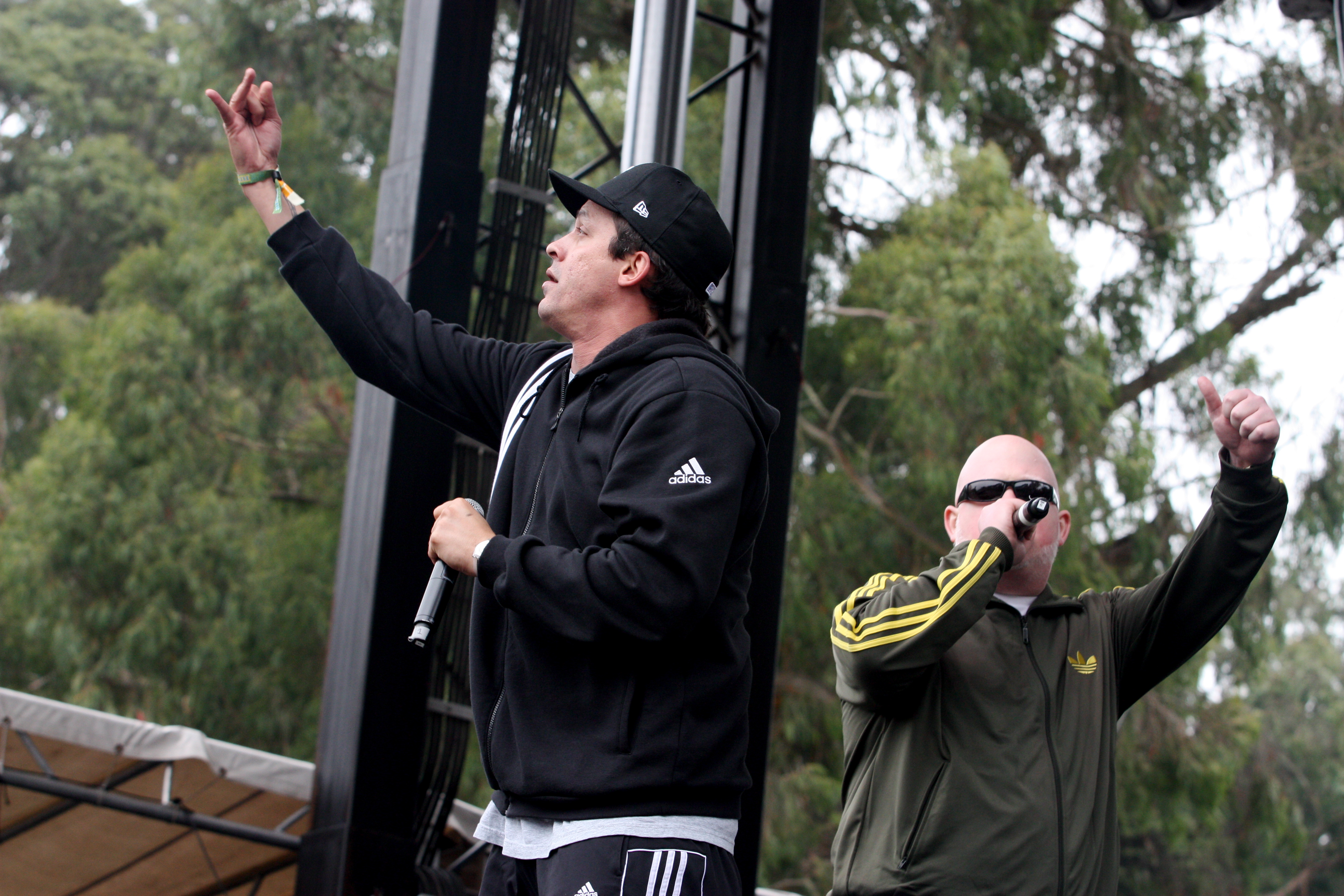 Slug and Brother Ali from the band Atmosphere at Outside Lands 2009